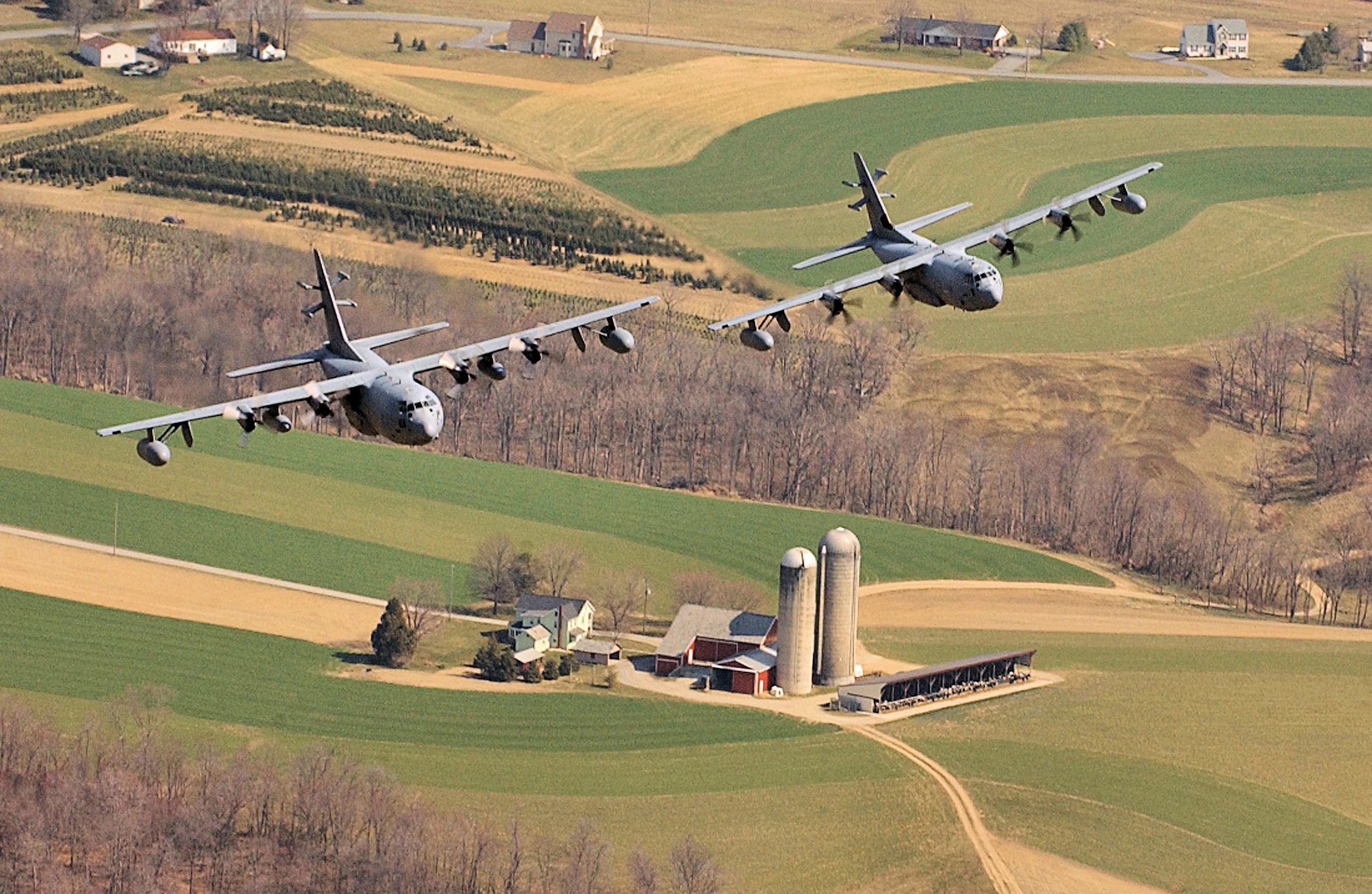 A new era is ushered in for the 193rd Special Operations Wing Pennsylvania Air National Guard March 28, 2006 as EC-130E (left) and EC-130J commando solo aircraft take to the skys over South Central Pa. for the first and last time together. The E model, a Viet Nam era aircraft, makes way for the new J model whose engines are more efficient in allowing the aircraft to travel farther, faster and higher than before, a great capability for the broadcast mission of the 193rd SOW. (Released) (Air Force photo by SSgt Matt D. Schwartz)